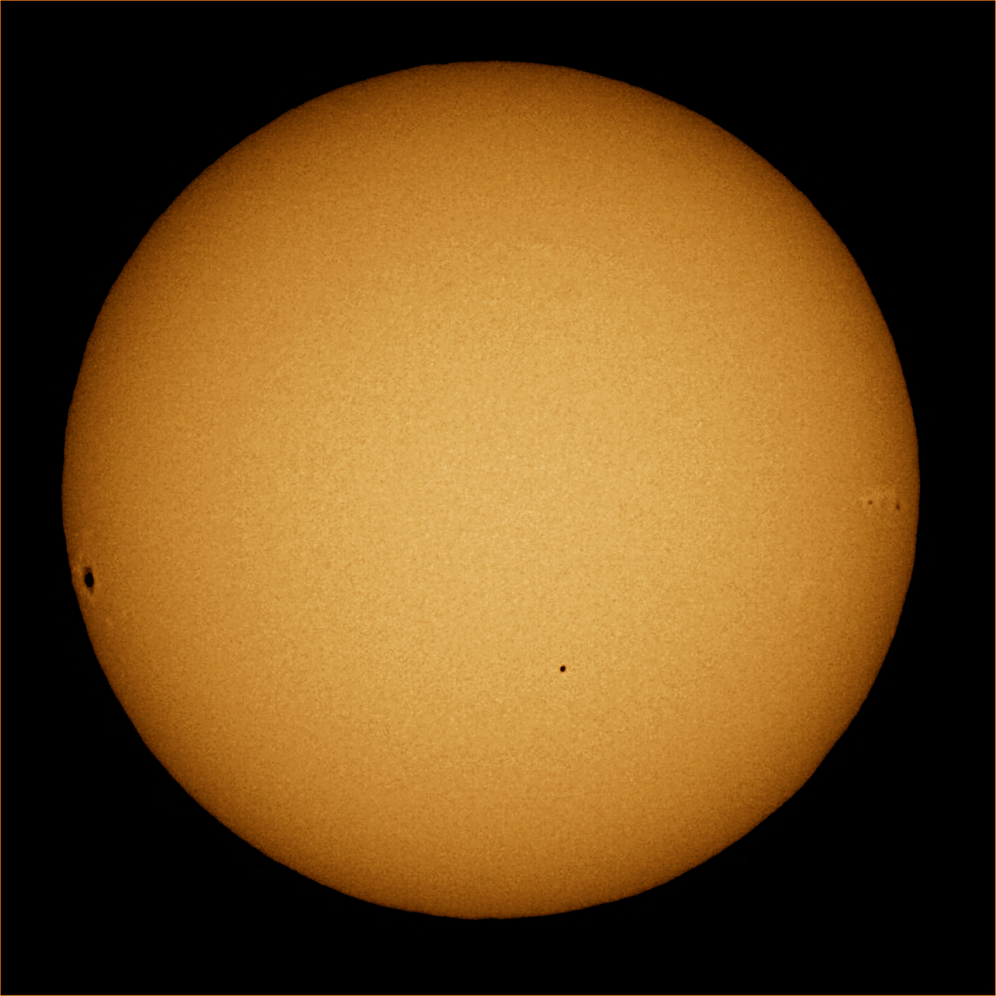 The Historical Transit of Mercury on November 8,2006. Please note that sunspot #923, which is just below the equator at the left-hand side, is much bigger than Mercury is. You can also see two more sunspots at the right-hand side at the equator. You can see Mercury as a small black dot in the lower middle of the solar disk. The picture was taken with a white filter.